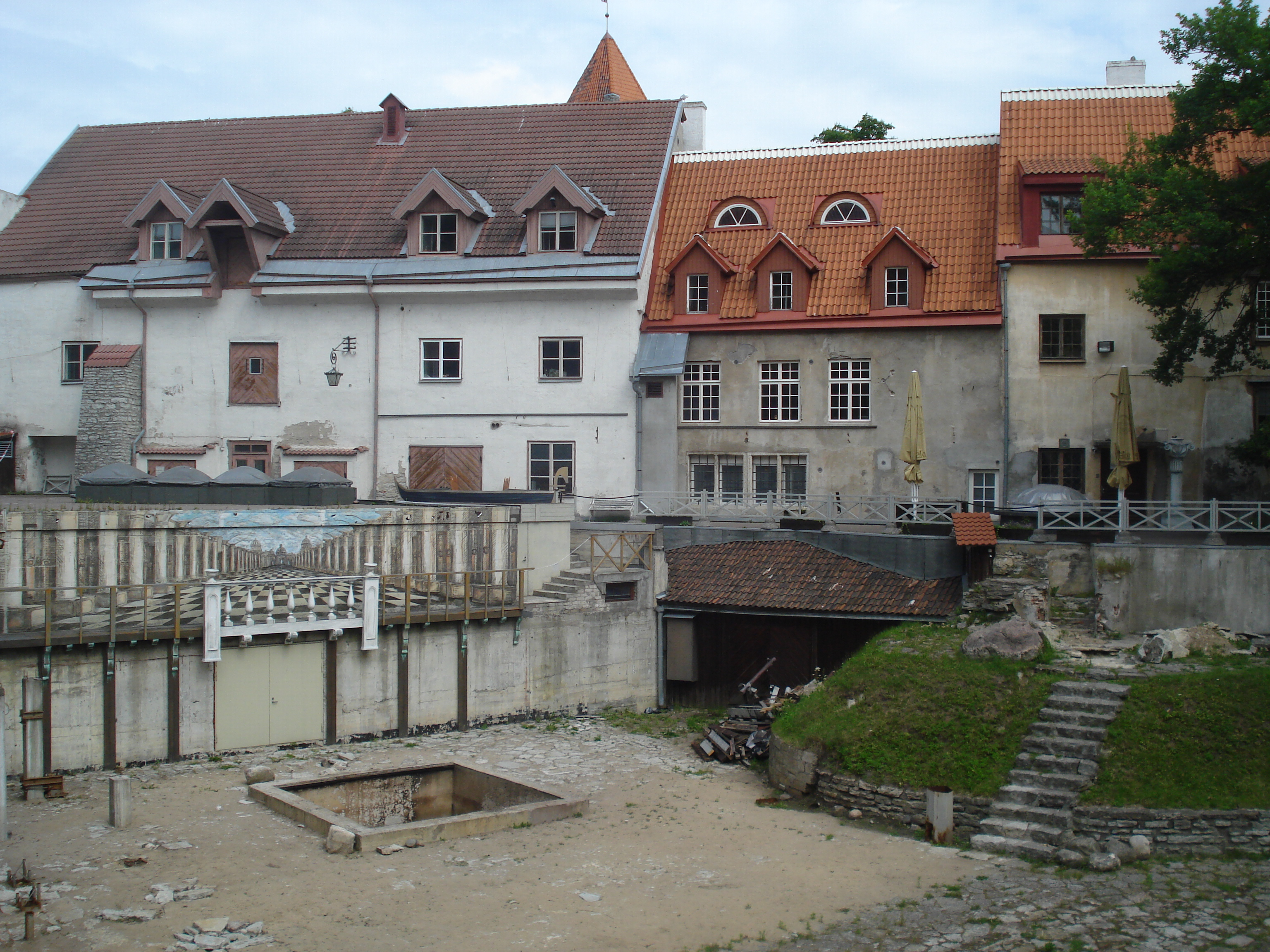 Open-Air Stage of Tallinn City Theater